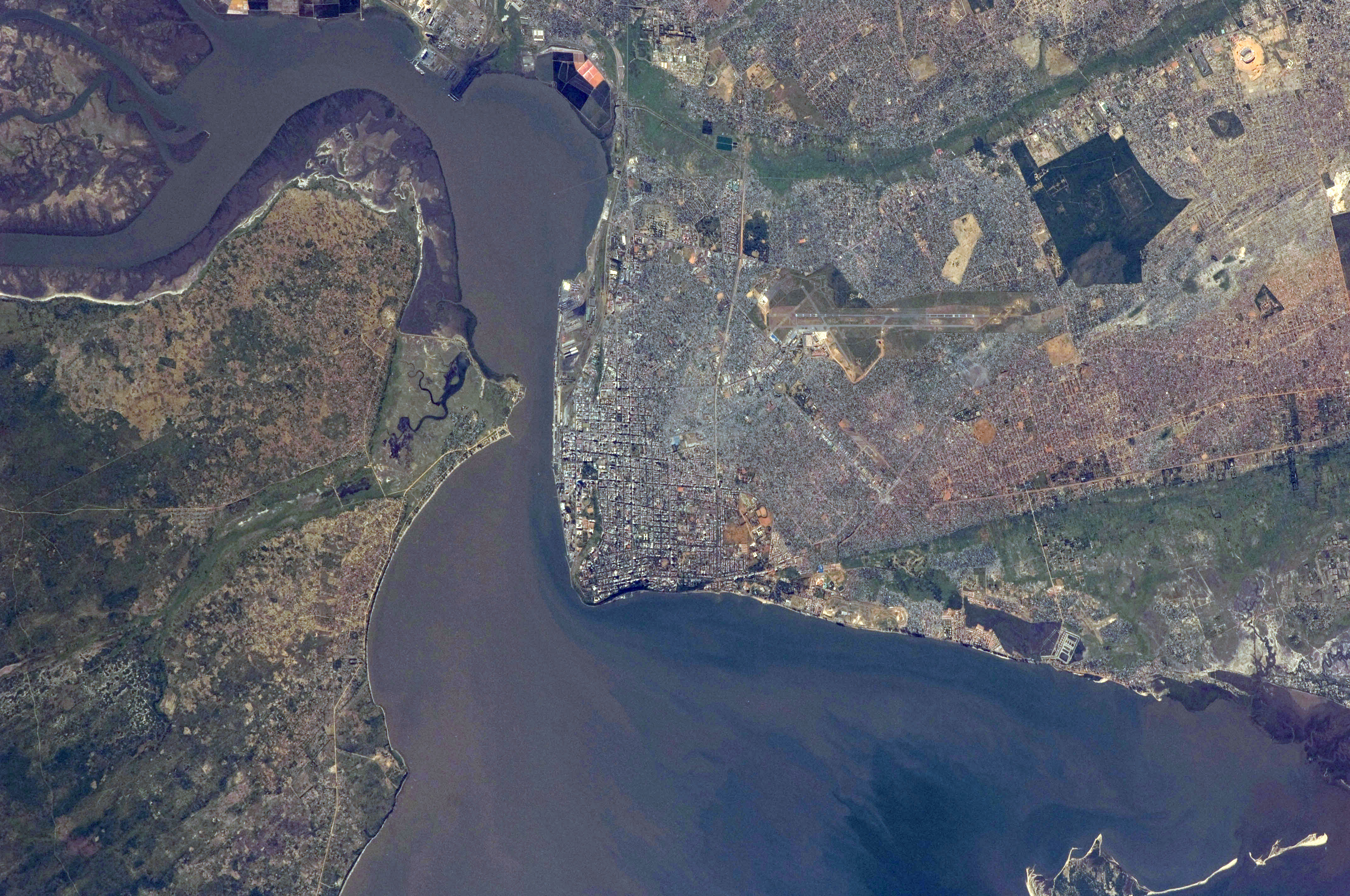 Astronaut Photo of Maputo, Mozambique taken from the International Space Station (ISS) during Expedition 22 on January 1, 2010.